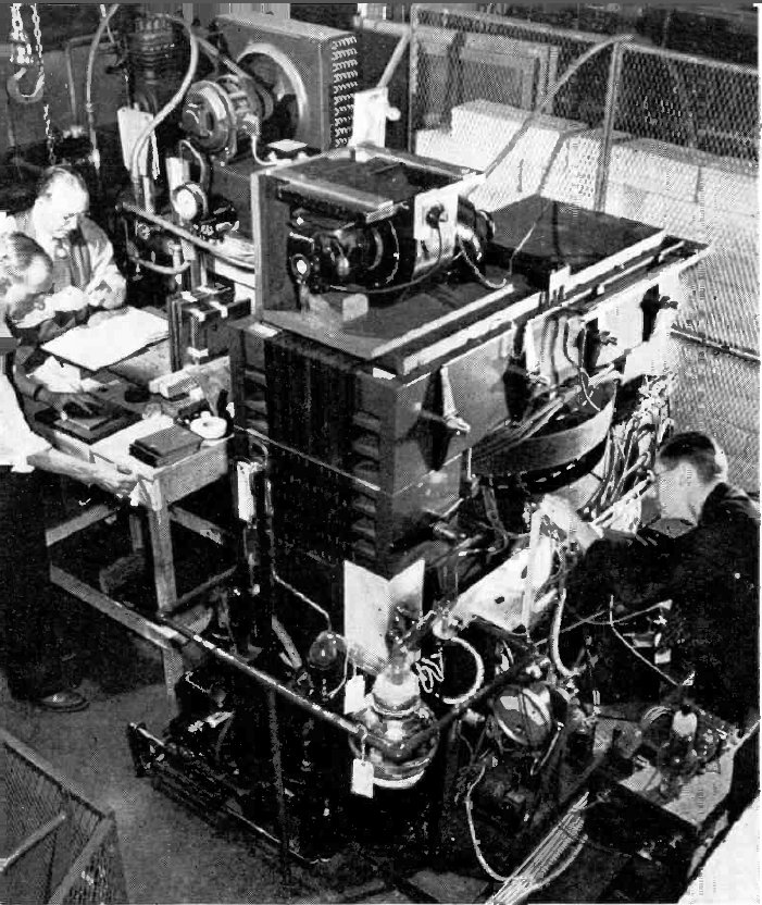 The first betatron, a particle accelerator that accelerates electrons, built at University of Illinois in 1940 by Donald W. Kerst, seen at right working on the pole pieces. It consisted of a 4 ton electromagnet with a donut-shaped vacuum chamber circling the pole piece and produced 24 Mev electrons.